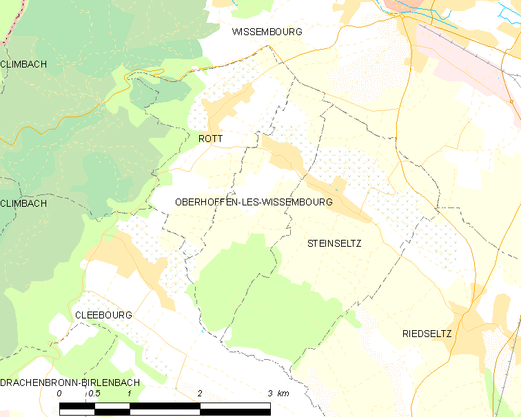 Map of French municipality